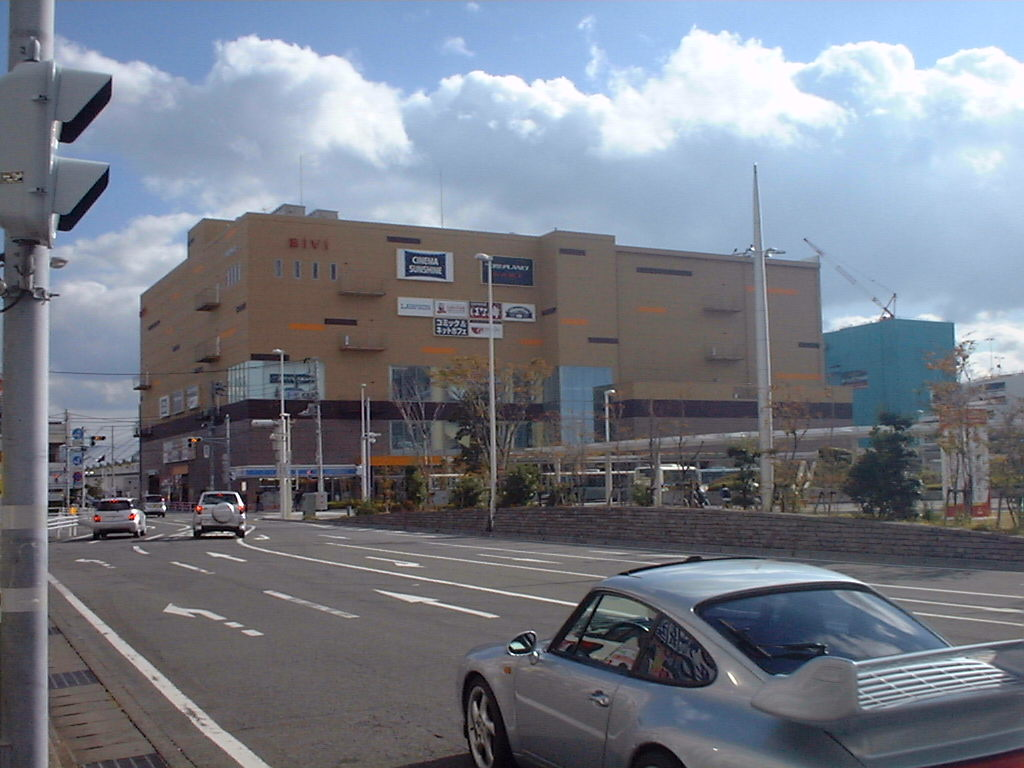 "BiVi Numazu" is an integrated amusement facility in Shizuoka Prefecture Numazu City.North exit at Numazu Station.